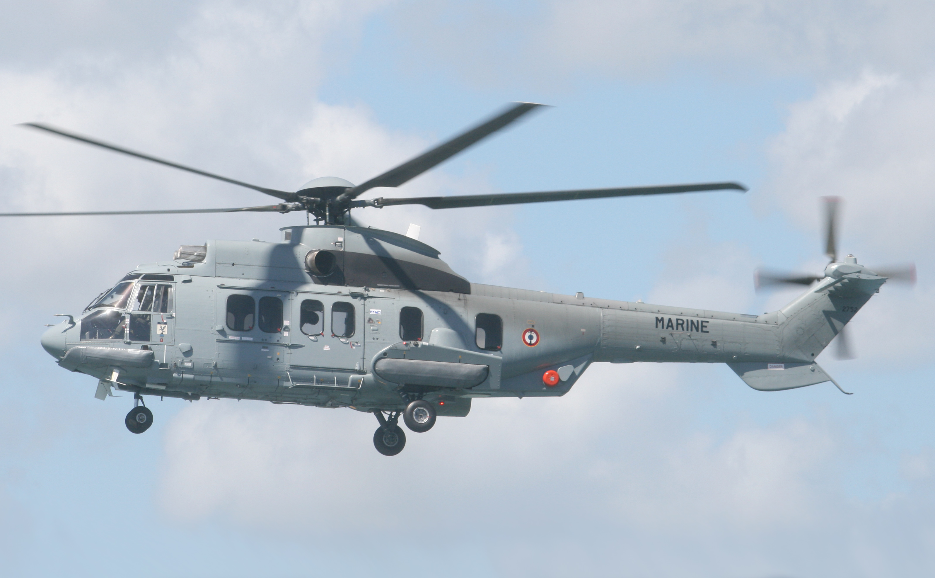 French Navy EC225